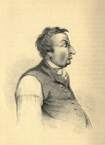 Nathaniel Bentley Sketch